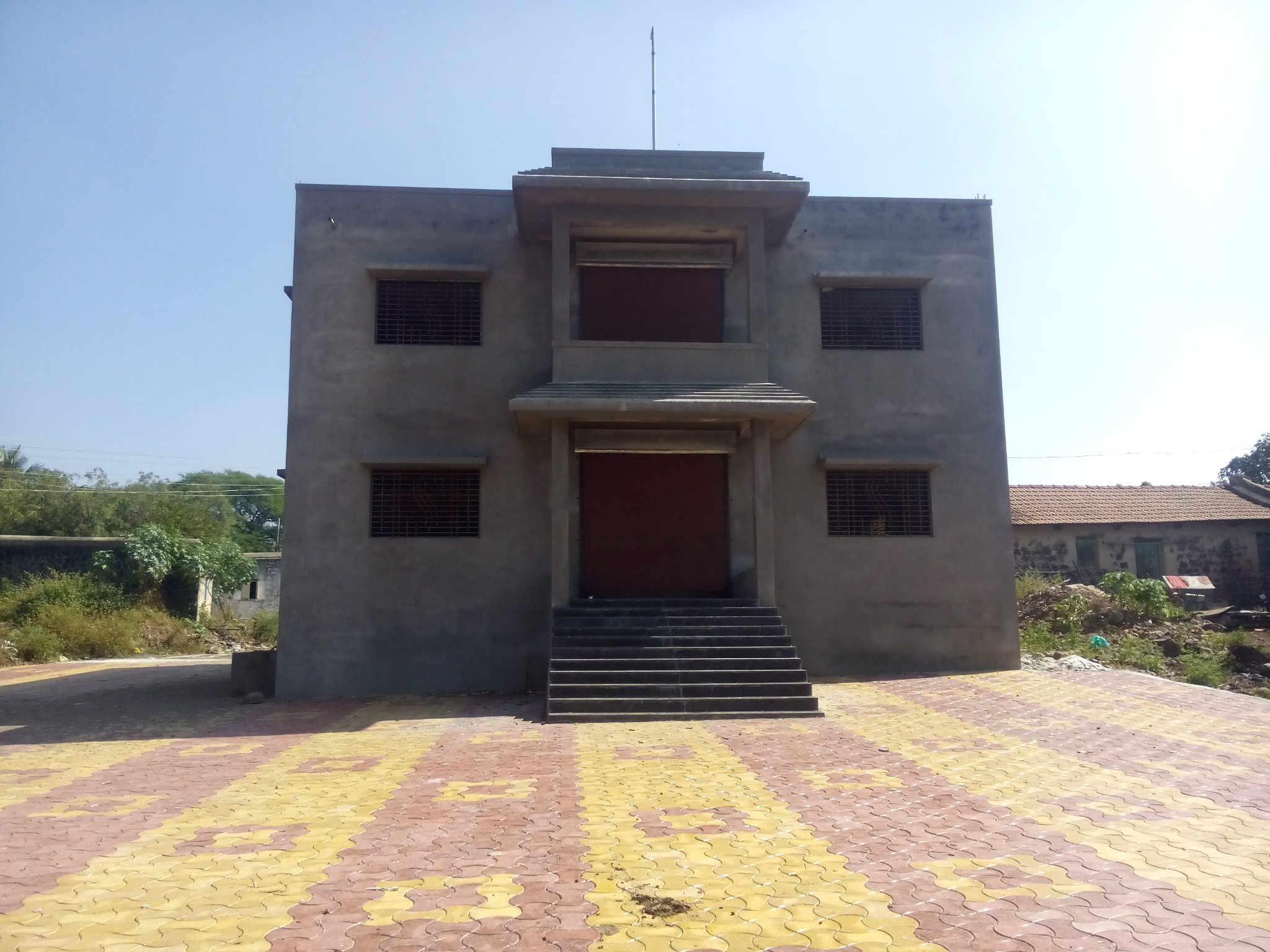 photo